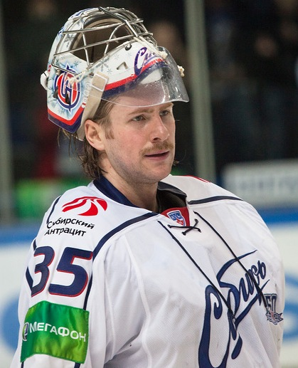 HC Sibir Novosibirsk goalie Jeff Glass during KHL-game Amur Khabarovsk—Sibir Novosibirsk on November 22, 2012.